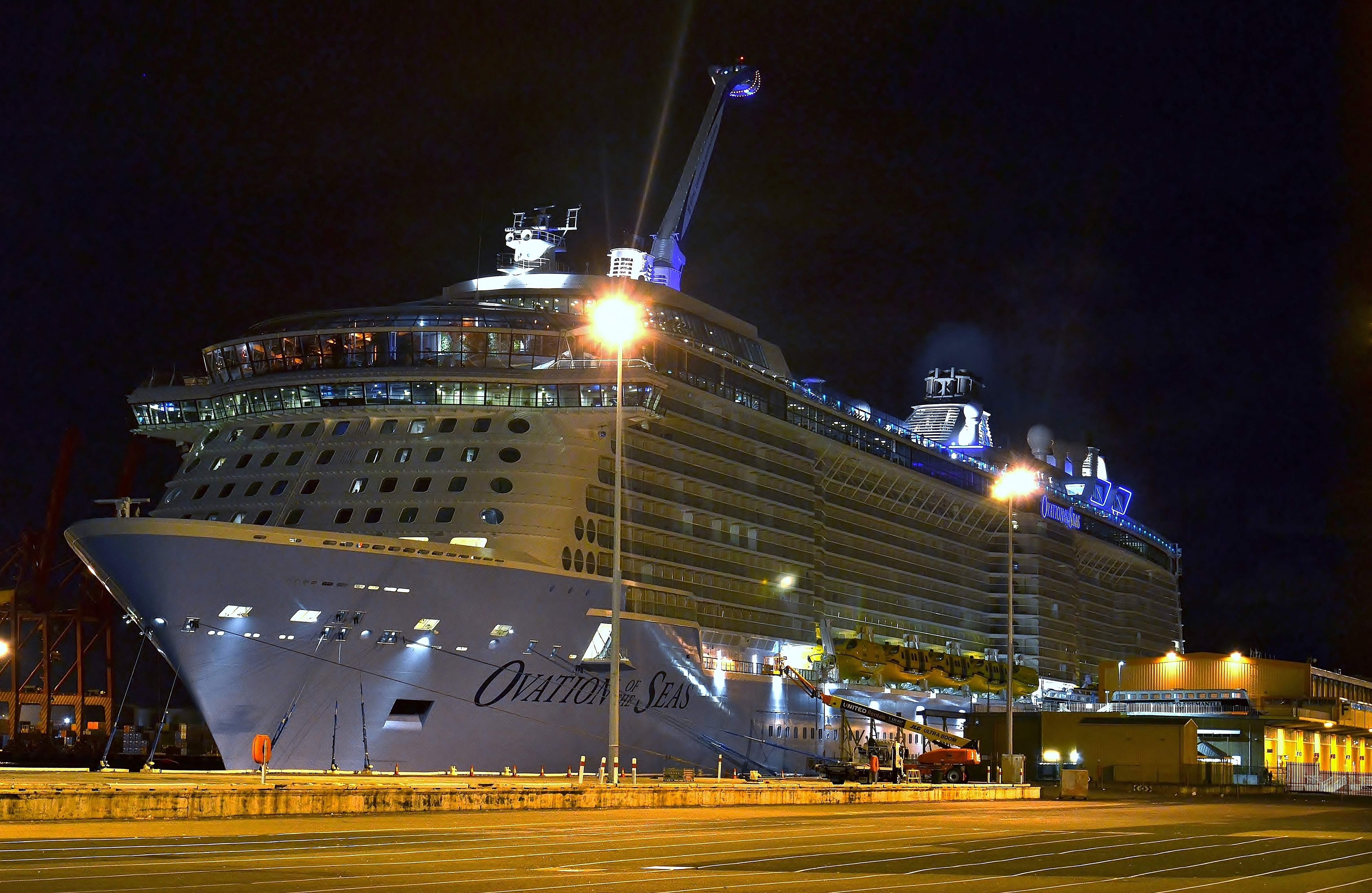 Cruise ship Ovation of the Seas, with North Star viewing platform raised, at "F" berth, alongside the Fremantle Passenger Terminal, Victoria Quay, in the inner harbour of Fremantle Harbour, Western Australia.